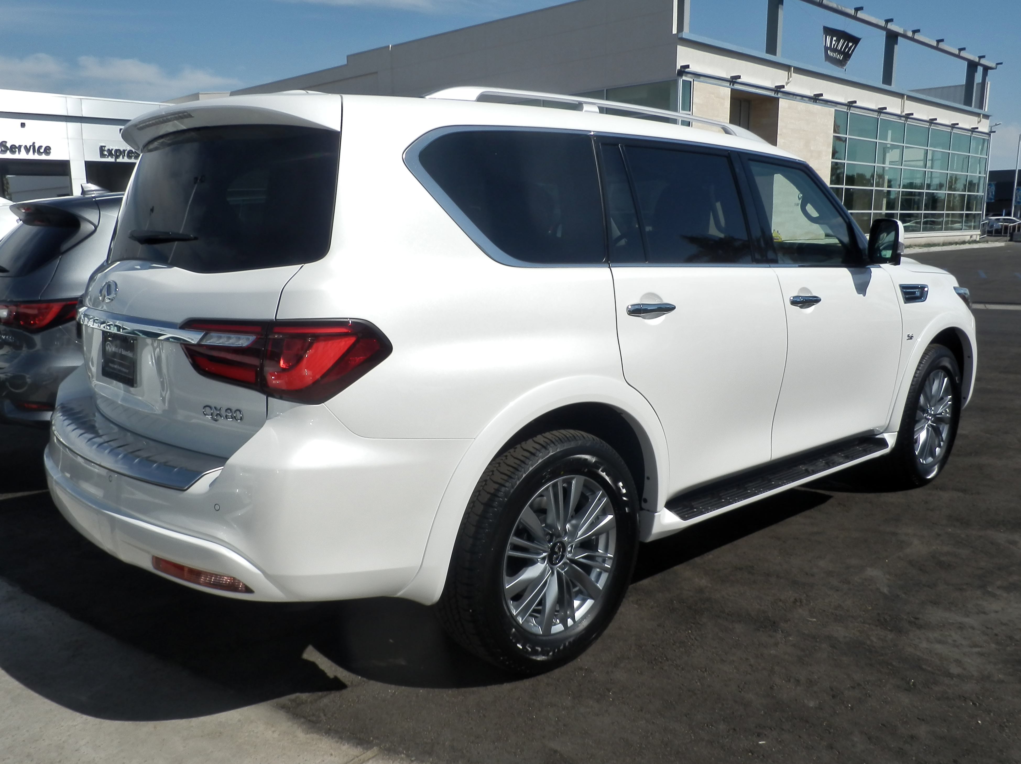 Infiniti QX80 in Bakersfield